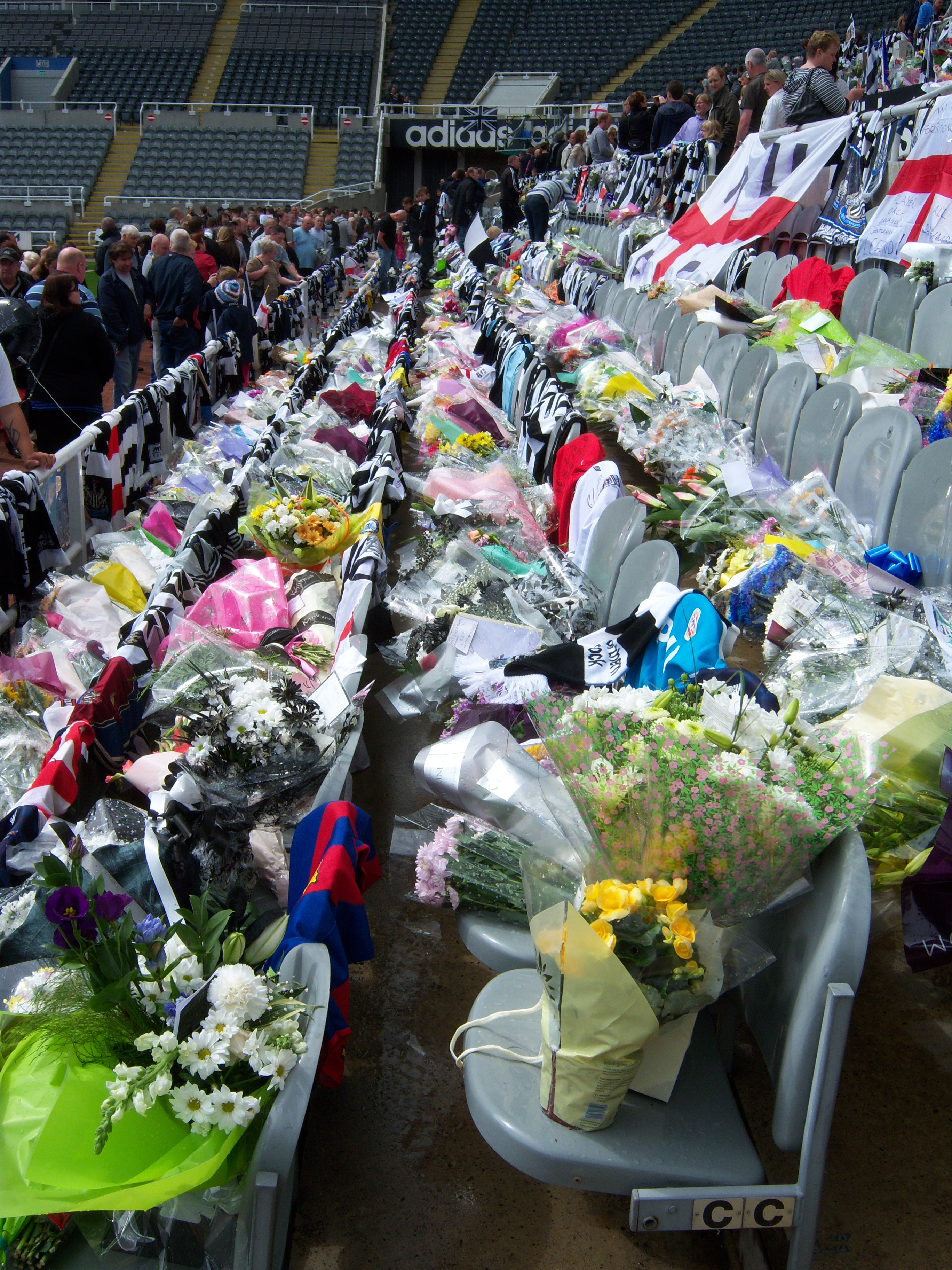 Tributes to Sir Bobby Robson laid by fans inside St James' Park in Newcastle upon Tyne the day after it was announced he had died.